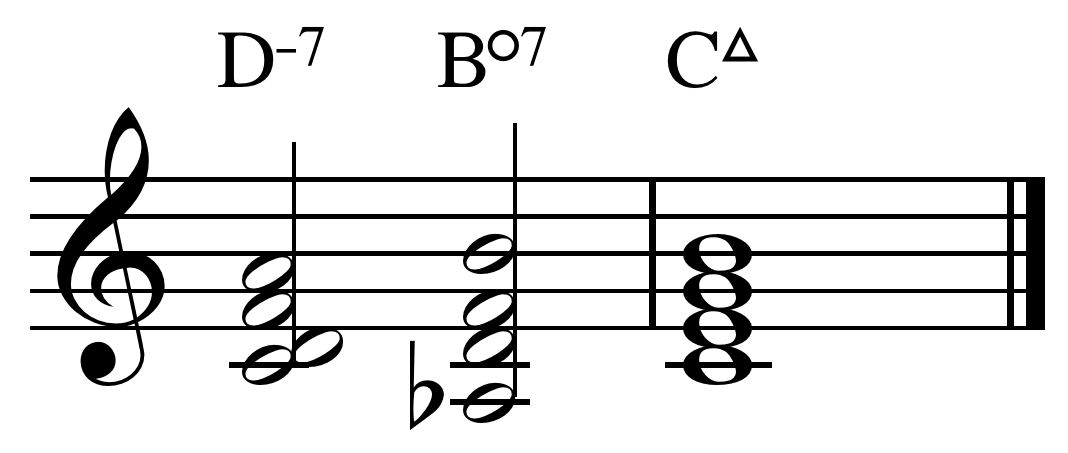 viio7 as dominant substitute.